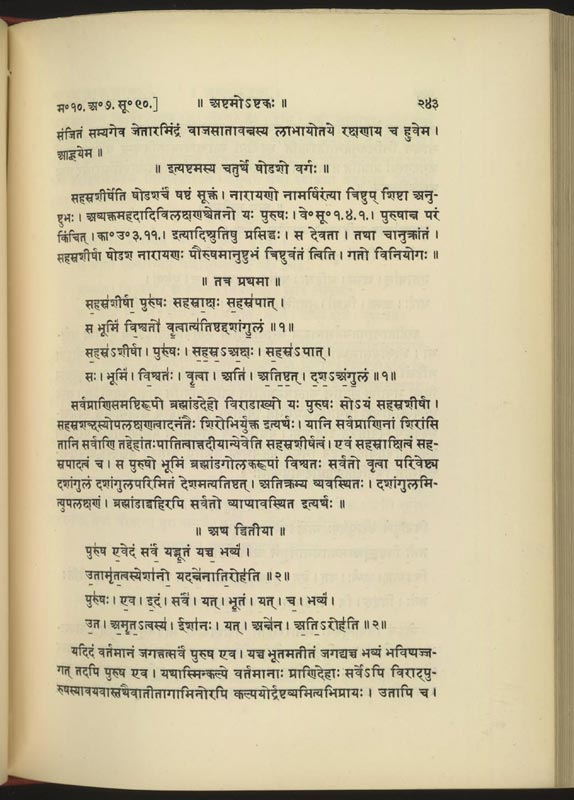 Hymn 10.90 of the Rigveda (Purusha sukta), verses 1 and 2 with commentary, page of Rig-Veda-sanhita, the Sacred Hymns of the Brahmans by Friedrich Max Müller (ed.), London, (1849-75, 1974 reprint). 1a sahásraśīrṣā púruṣaḥ sahasrākṣáḥ sahásrapāt c sá bhûmiṃ viśváto vṛtvâty atiṣṭhad daśāṅgulám a sahásraśīrṣā púruṣaḥ b sahasrākṣáḥ sahásrapāt c sá bhûmim viśvátaḥ vṛtvâ d áti atiṣṭhat daśāṅgulám "A thousand heads hath Purusa, a thousand eyes, a thousand feet. On every side pervading earth he fills a space ten fingers wide." 2a púruṣa evédáṃ sárvaṃ yád bhūtáṃ yác ca bhávyam c utâmṛtatvásyéśāno yád ánnenātiróhati a púruṣaḥ evá idám sárvam b yát bhūtám yát ca bhávyam c utá amṛtatvásya îśānaḥ d yát ánnena atiróhati "This Purusa is all that yet hath been and all that is to be; The Lord of Immortality which waxes greater still by food."